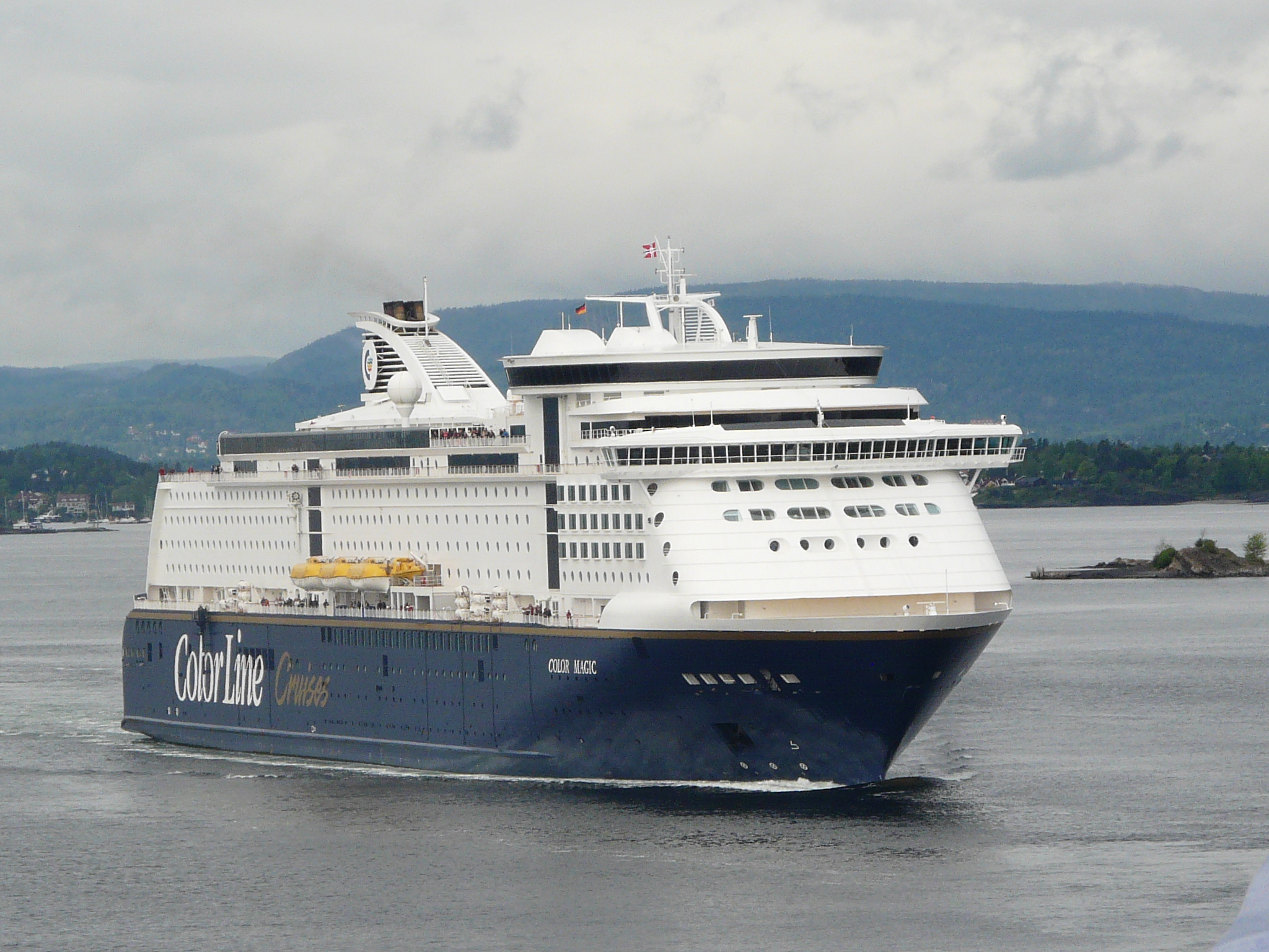 Color Magic (ferry ship, 2007)